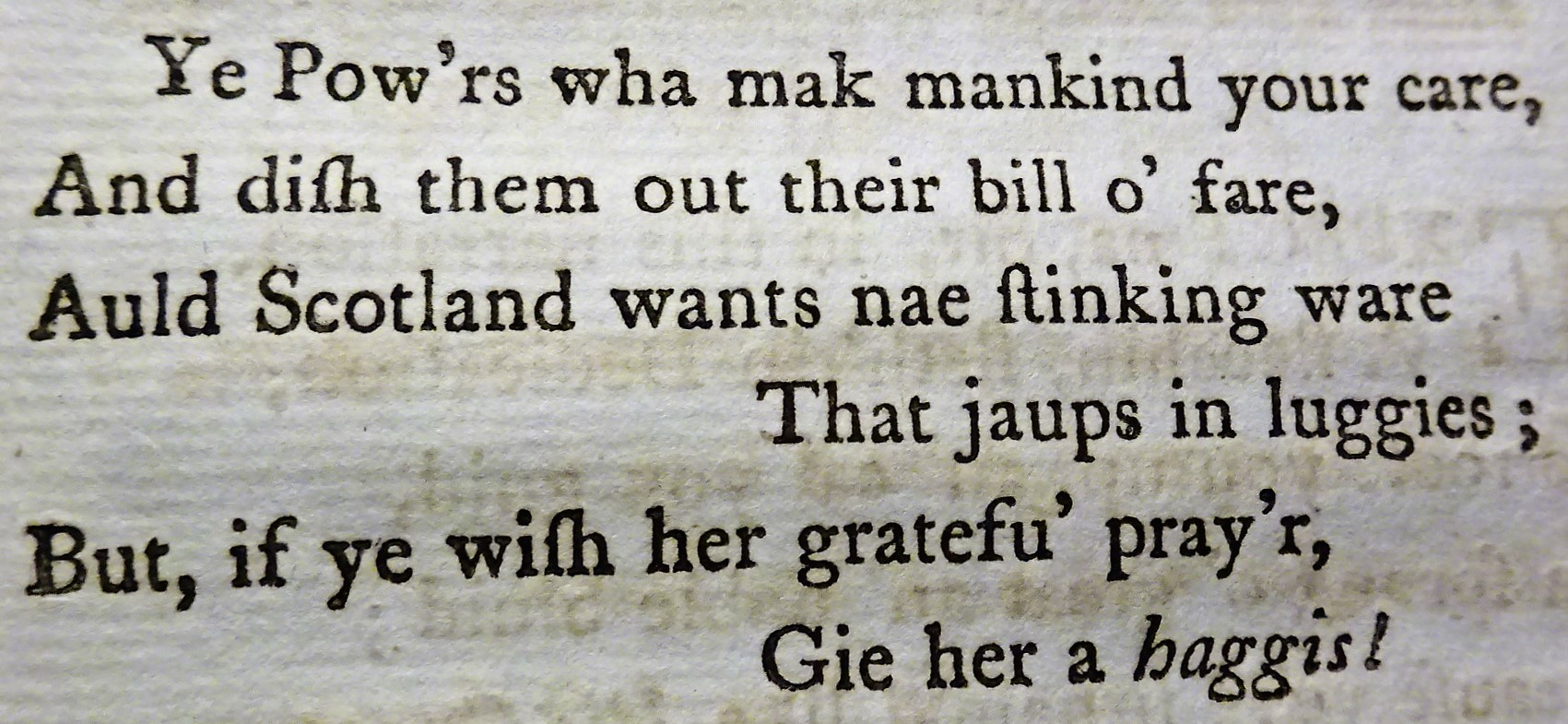 'stinking' misprint, 1787 Edinburgh Edition. Poems Chiefly in the Scottish Dialect. Should have read 'skinking' on page 263. The first impression copies were correct and second impressin had the error hence the so called 'Stinking Edition'.